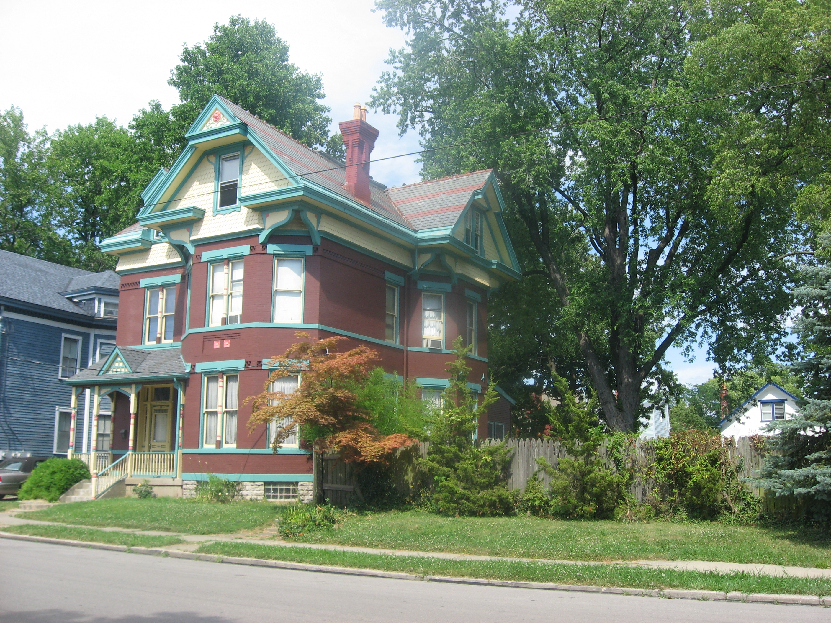 Front and southern side of one of the Beech Avenue Houses, located at 1128 Beech Avenue in the West Price Hill neighborhood of Cincinnati, Ohio, United States. Built in 1885, it is listed on the National Register of Historic Places. The other house (also listed on the Register) once occupied the empty lot on the right half of the picture.